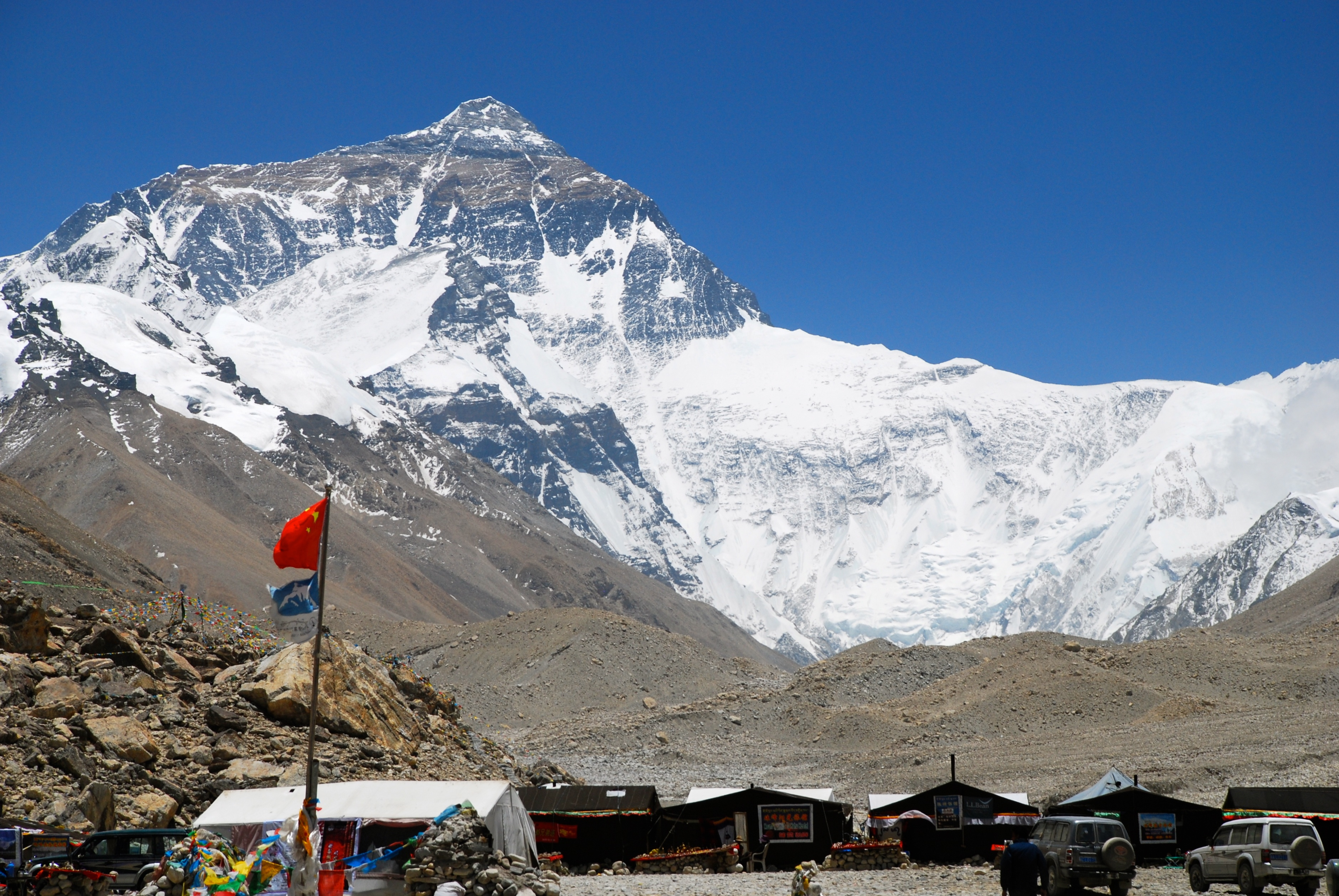 A picture of Mount Everest taken from the perspective of base camp